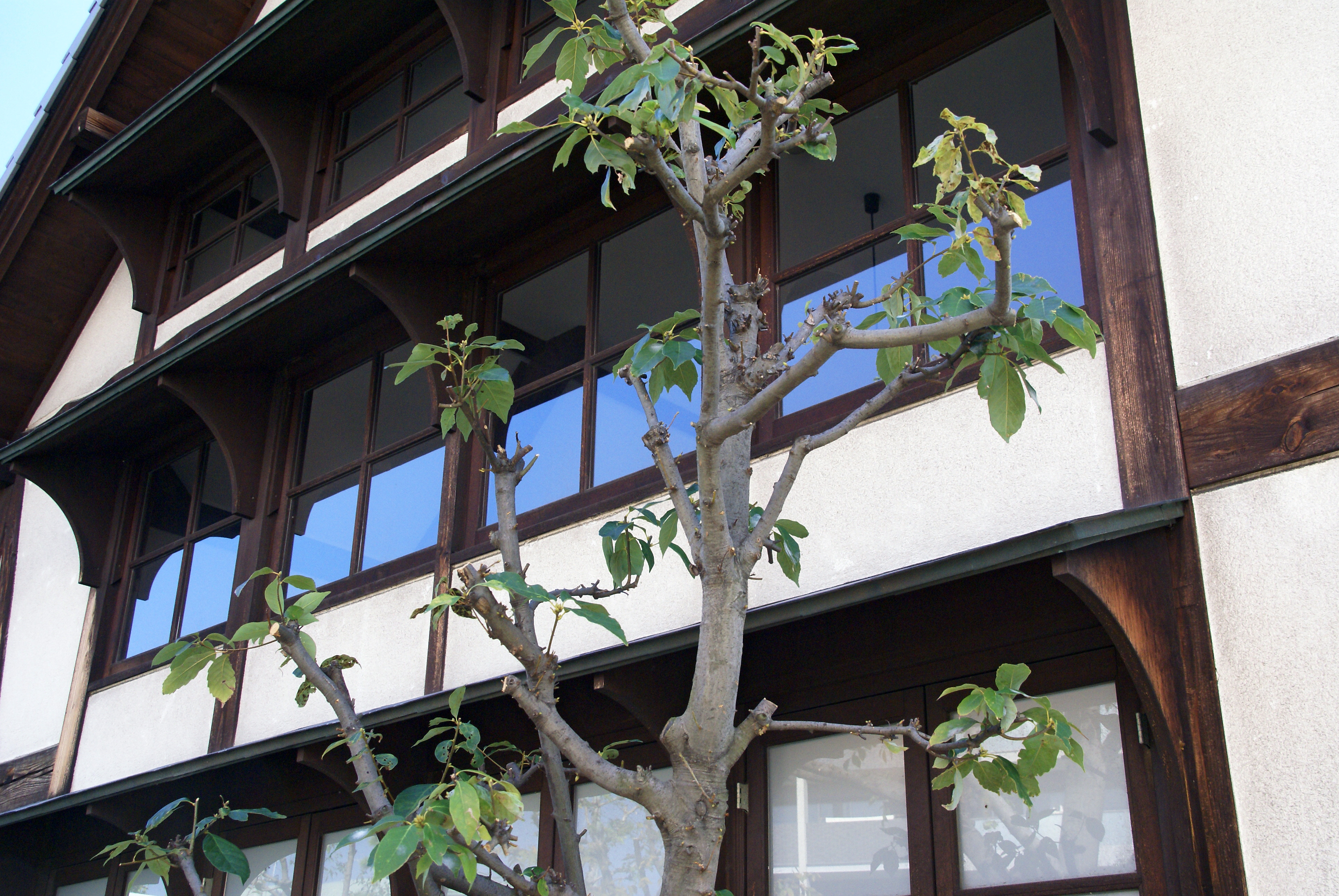 Atelier of Koide Narashige at Ashiya City Museum of Art & History in Ashiya, Hyogo prefecture, Japan